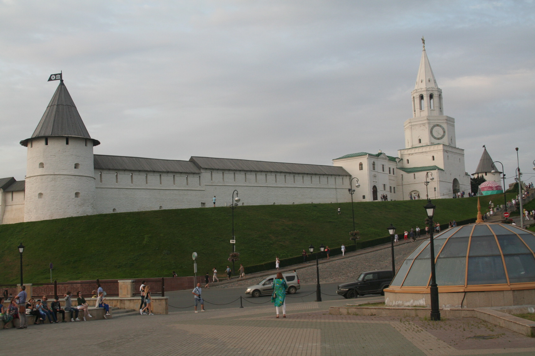 Kazan Kremlin